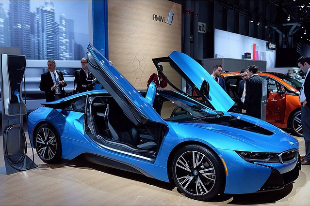 BMW i8 plug-in hybrid at the 2014 New York International Auto Show